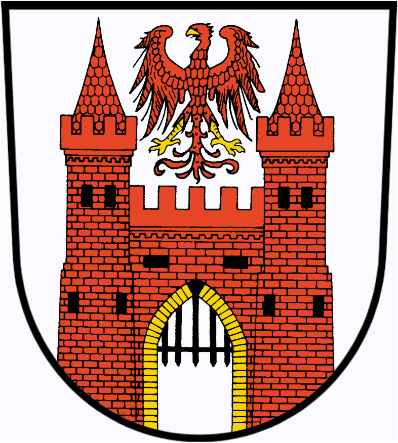 Coat of arms of Biesenthal